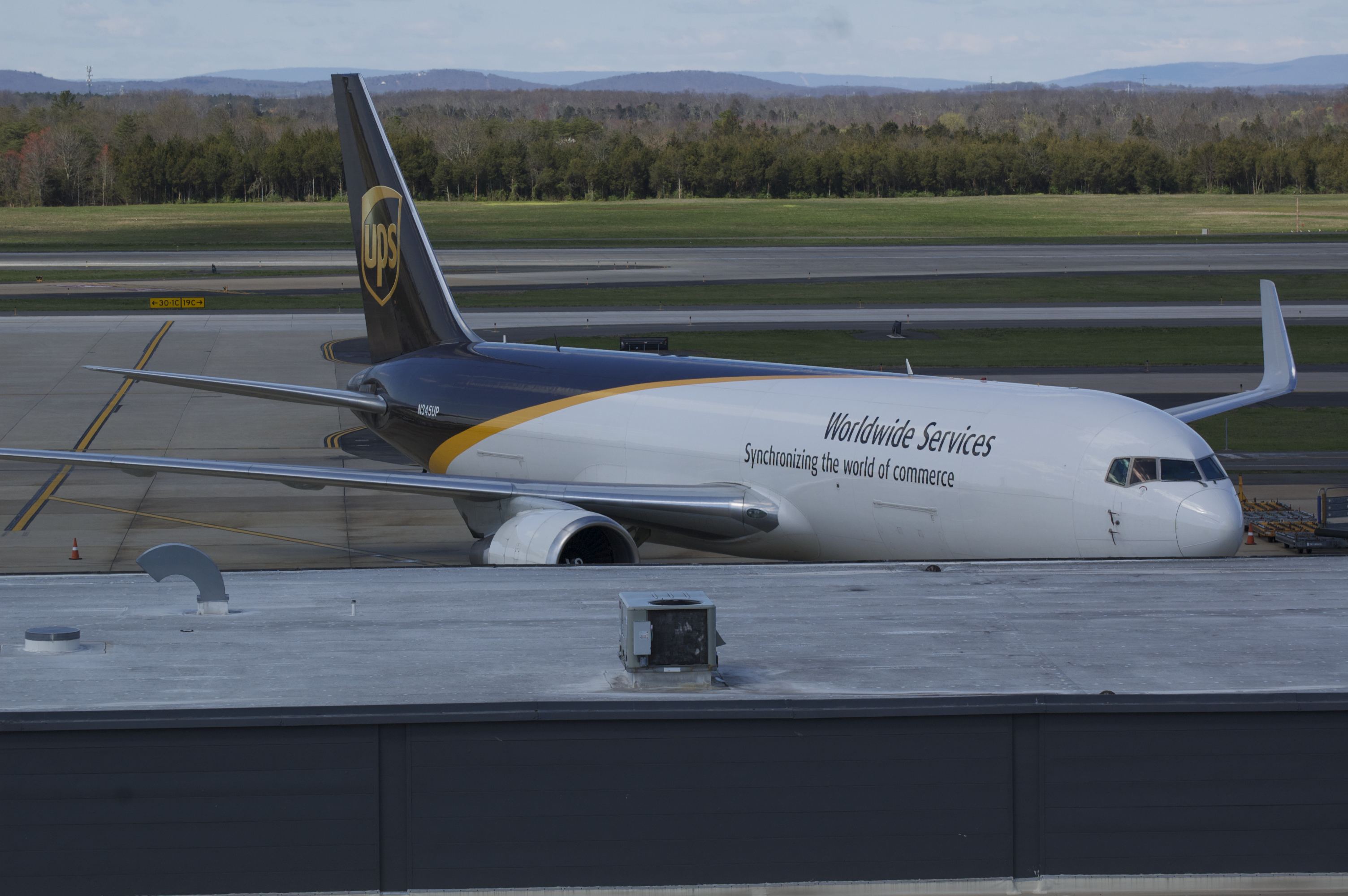 UPS 767-300F N345UP at Dulles airport.